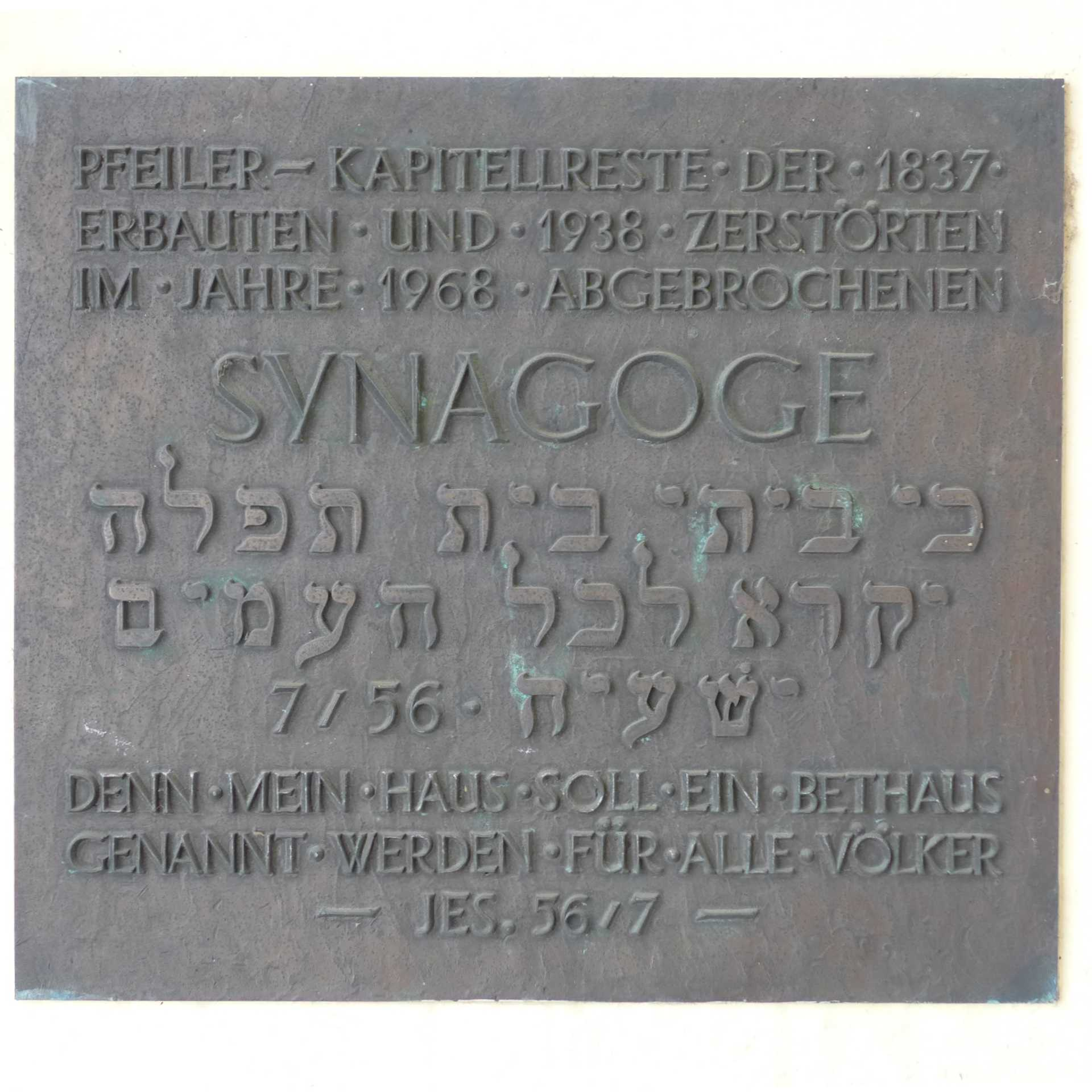 Plaque in Holzminden